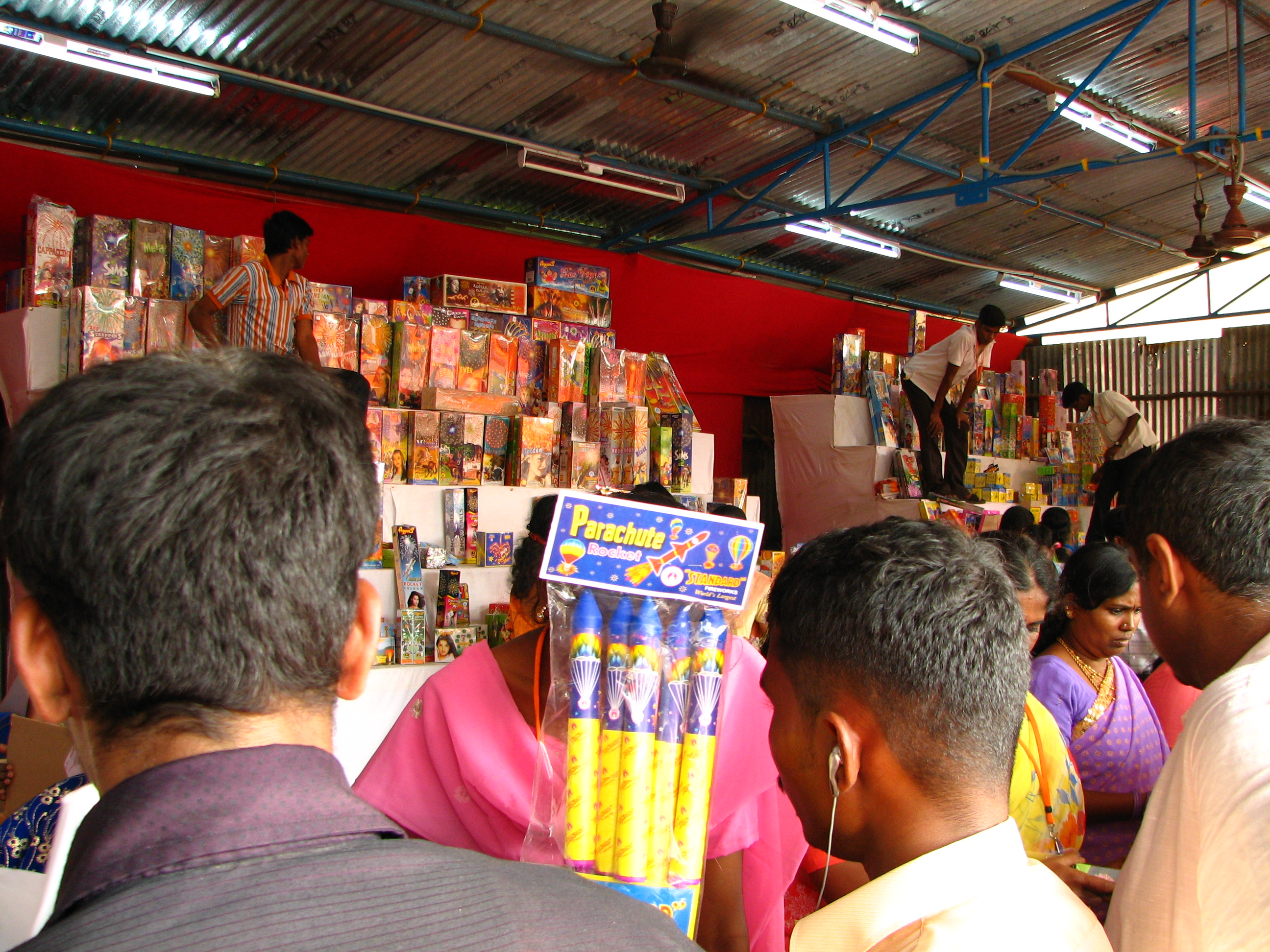 The scrum of buying firecrackers for Diwali. Typical of all things here, there was only a tiny semblance of order or system so it takes some patience and aggressive perseverance, but that of course goes without saying when buying things. India loves firecrackers and for 2 days Chennai was smoke-filled and 125-decibels from 6am to 11pm on every street. Crackers and bombs, fountains and rockets, and of course sparklers and cap guns for the kids. Not wanting to miss the fun, we bought some and joined in the explosion-setting and ear-drum damaging fun. Daunted by the stock list of nearly 1000 items and unsure what all the types were, we picked ours by cool-sounding name, requesting "He-Man rockets" and a "Raiders of the Lost Ark 7-shot" as well as "Shogun bombs" and some basic crackers. They were sadly out of the He-Man and Raiders versions, so we could not experience what these might entail when lit, and had to content ourselves with substitutes. But for the cheap prices, we got far more crackers than we had the enthusiasm or hearing to light and gave some away to over-stimulated neighbourhood kids.